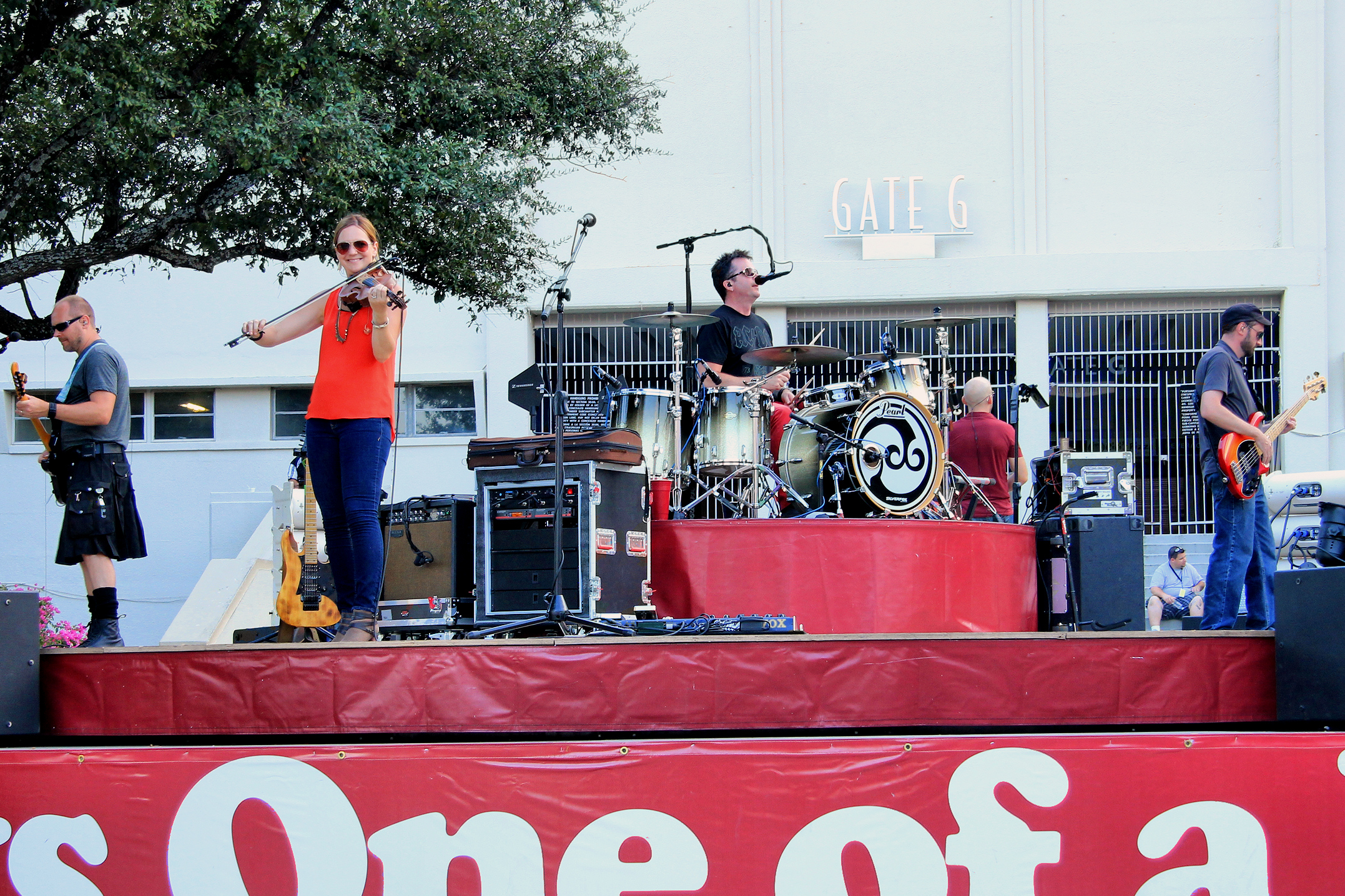 The Killdares at the 2014 State Fair of Texas, Dallas, Texas, United States.